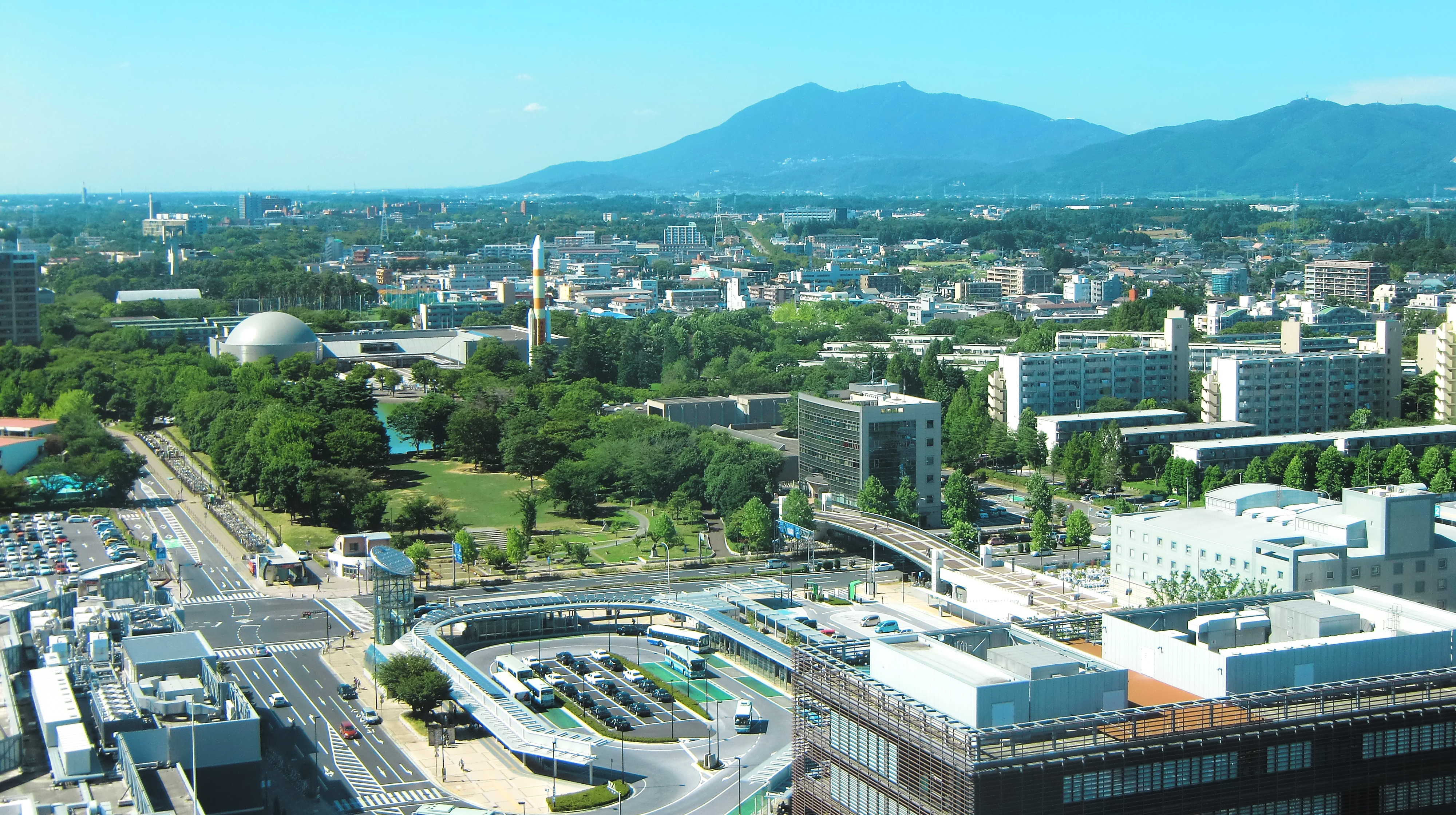 Tsukuba Center and Mount Tsukuba in Tsukuba city, Ibaraki prefecture, Japan. This picture was taken from Tsukuba-Mitsui building 20th floor.